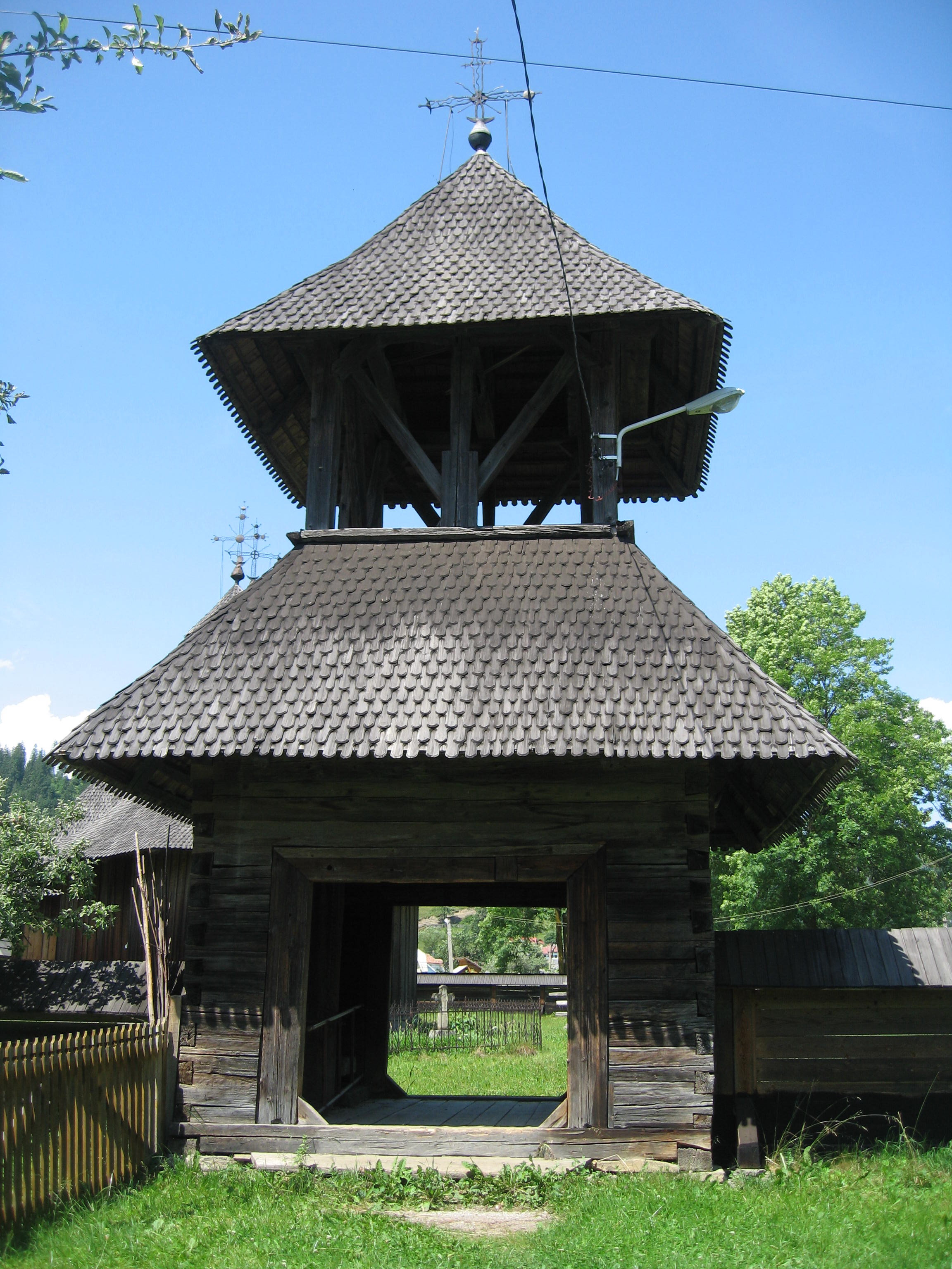 Biserica de lemn din Colacu 03